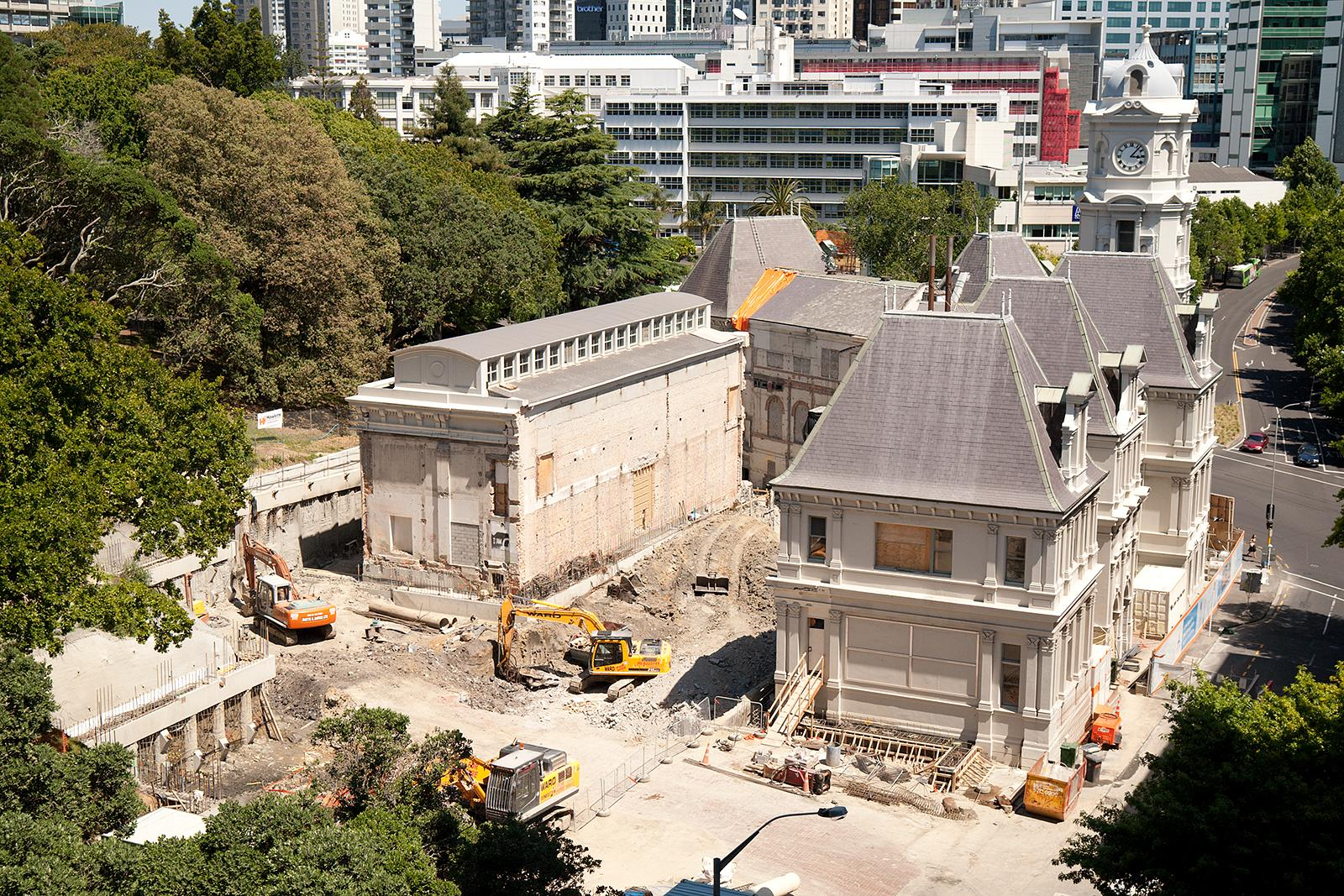 Auckland Art Gallery. Flickr info: "It looks like the piles have finally set and they are digging out what will become below ground levels between the existing buildings."